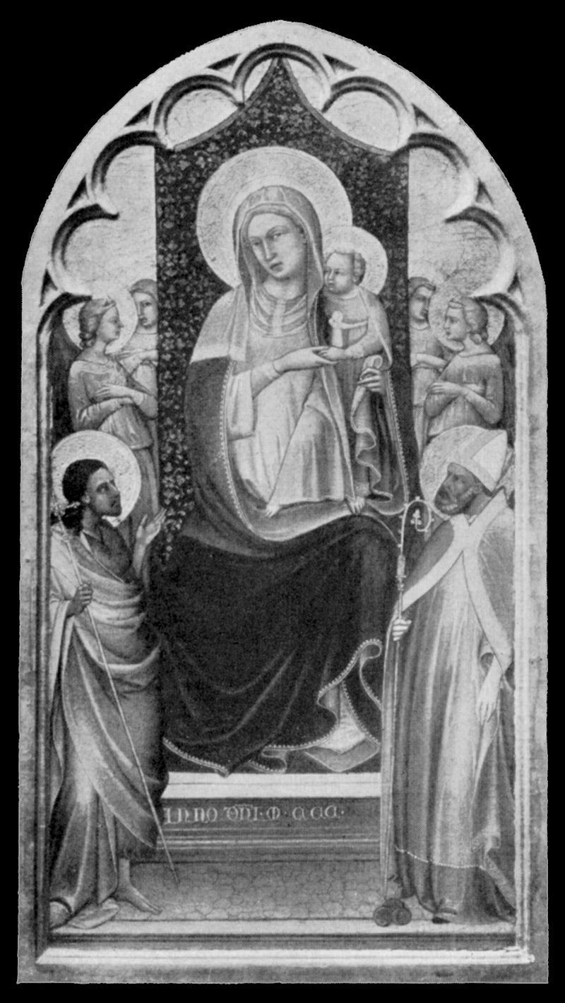 'Madonna and Child with Saints John the Baptist and Nicholas', by Lorenzo Monaco, ca. 1402. The painting was destroyed or disappeared in Berlin in May 1945, in the Friedrichshain flak tower fire. - Dimensions: 90 x 49 cm